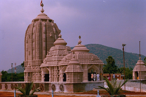 Temple1_VSP